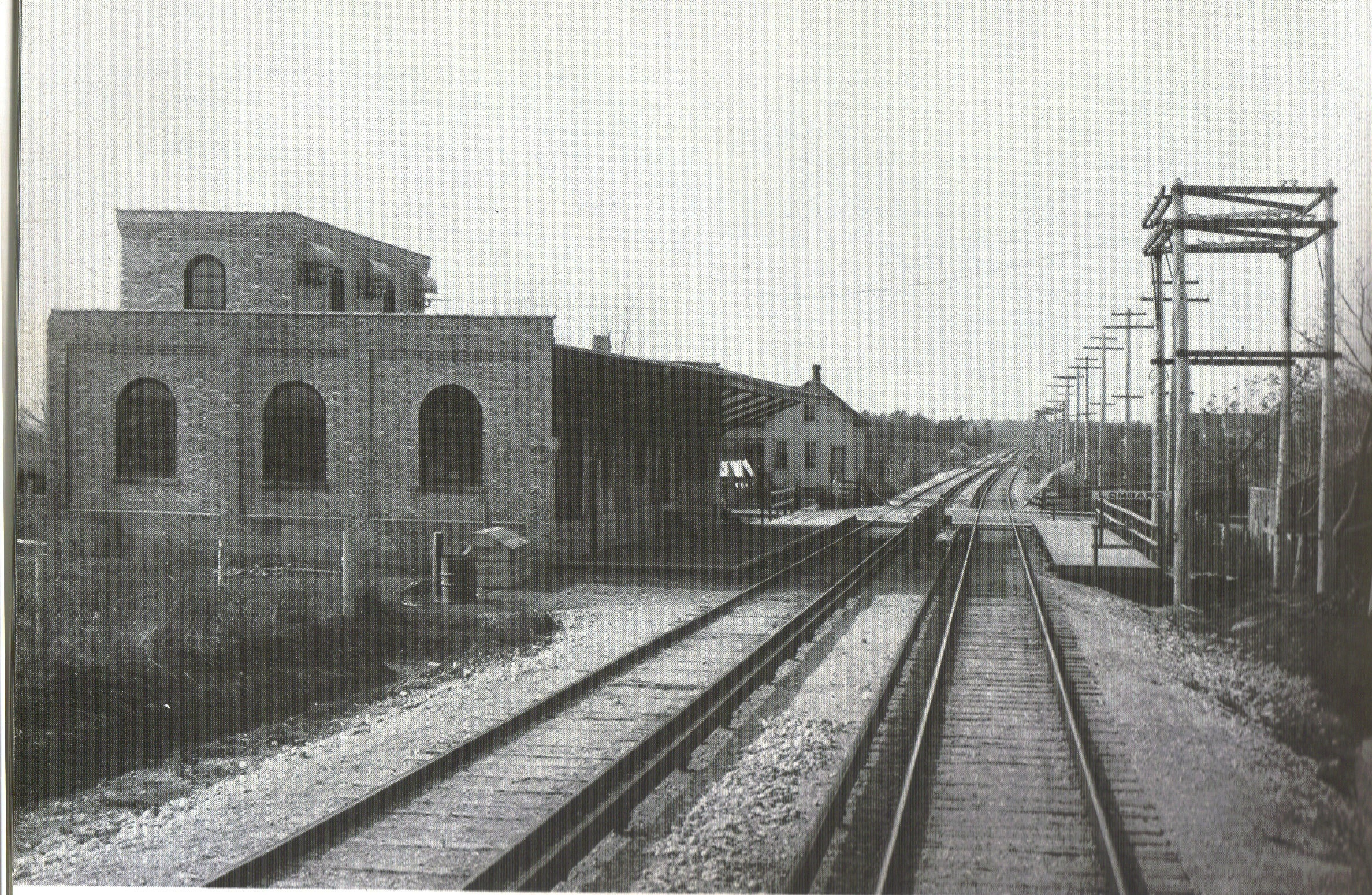 The AE&C station at Lombard (left), pictured in 1902. The station doubled as an electrical substation which is still used by Com-Ed to this day.